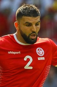 Romelu Lukaku, Syam Ben Youssef